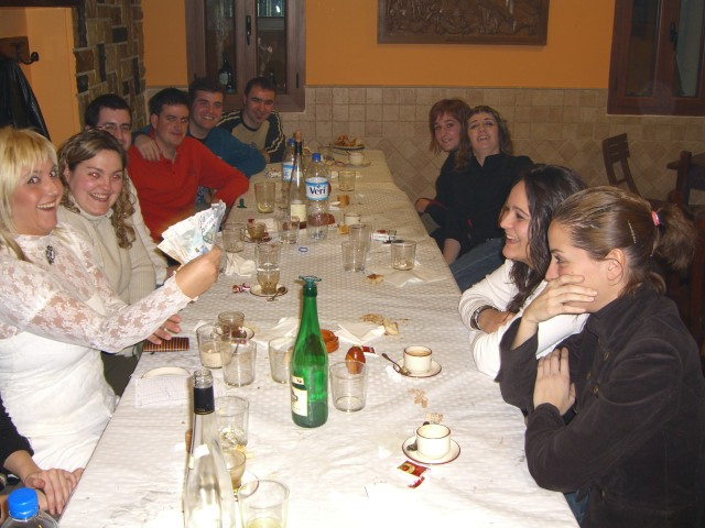 Friends after dinner in the Basque Country.